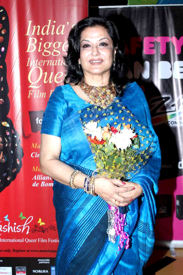 Moushmi Chatterjee at 3rd Kashish Mumbai International Queer Film Festival